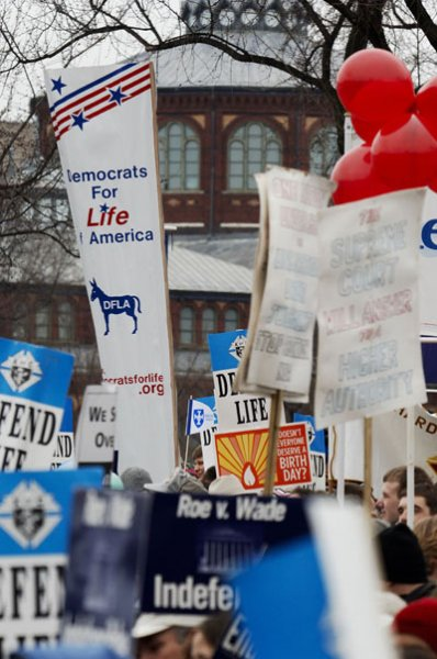 DFLA banner at the 2006 March for Life, courtesy of Democrats for Life of America.